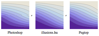 Comparison of three soft light blend modes: Photoshop, Pegtop and illusions.hu.